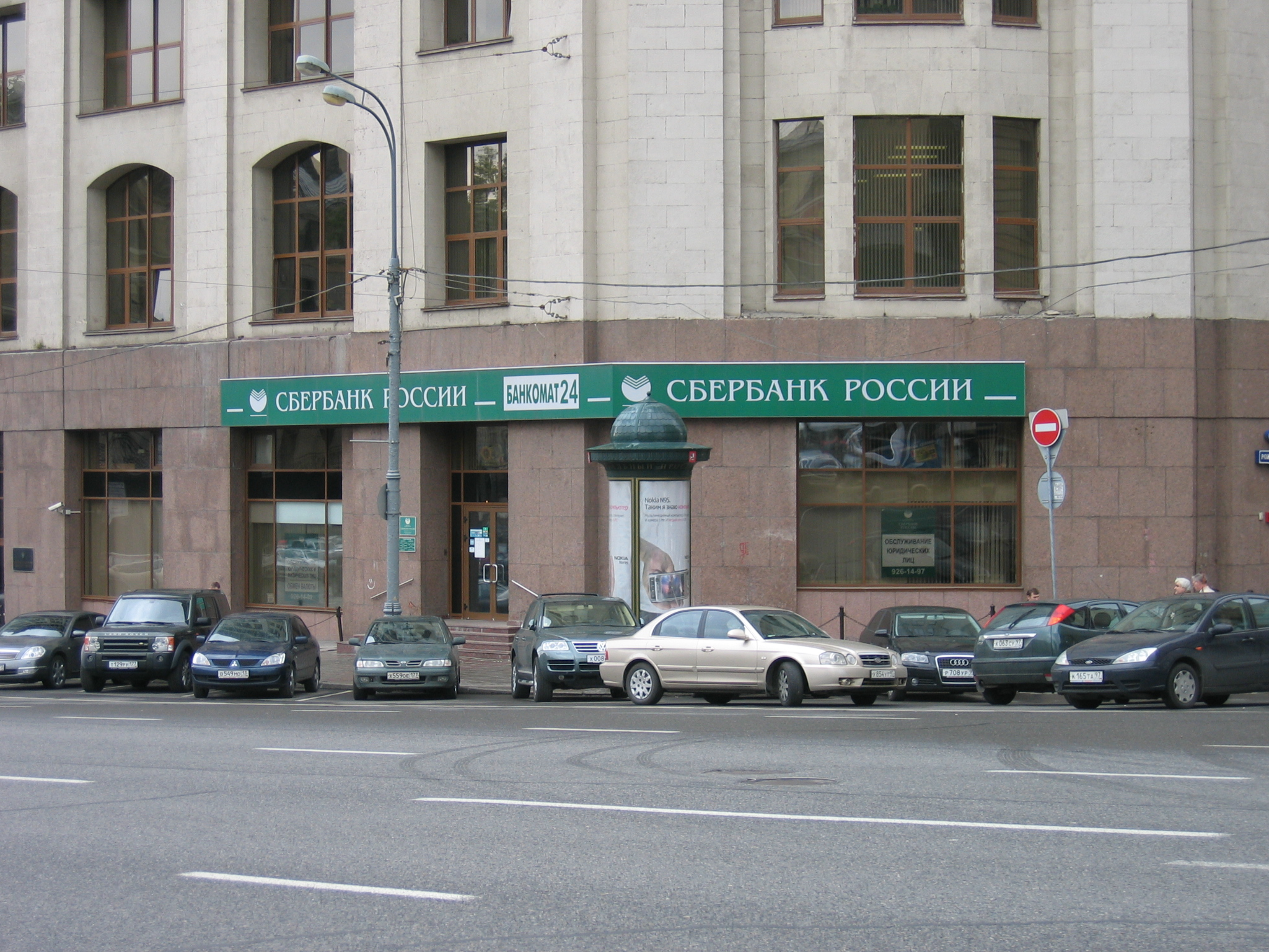 Sberbank, a Moscow office (meanwhile non-existent)